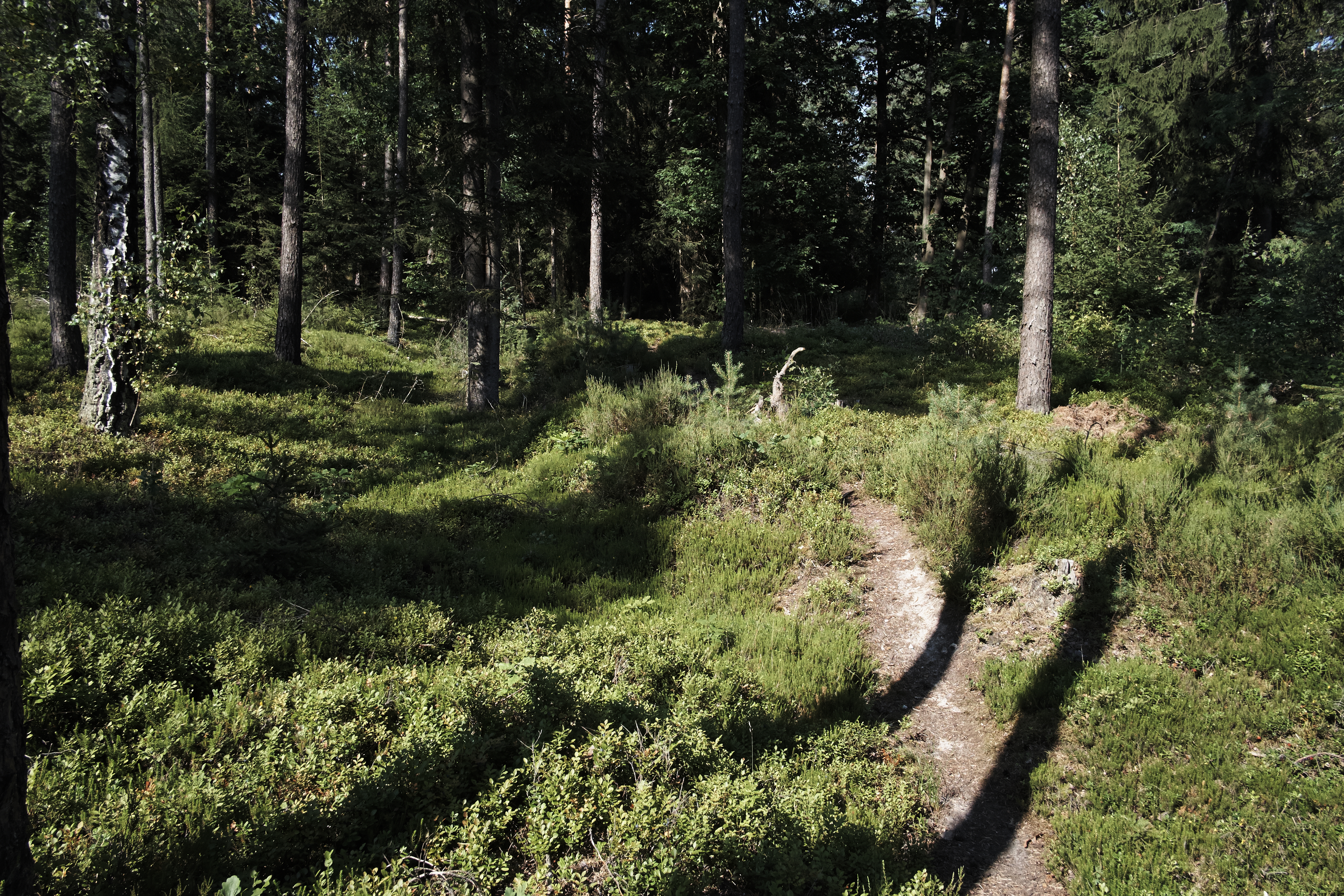 Trade route Goldene Straße (golden street) between Prague an Nuremberg, near Hirschau, county Amberg-Sulzbach, Bavaria, Germany